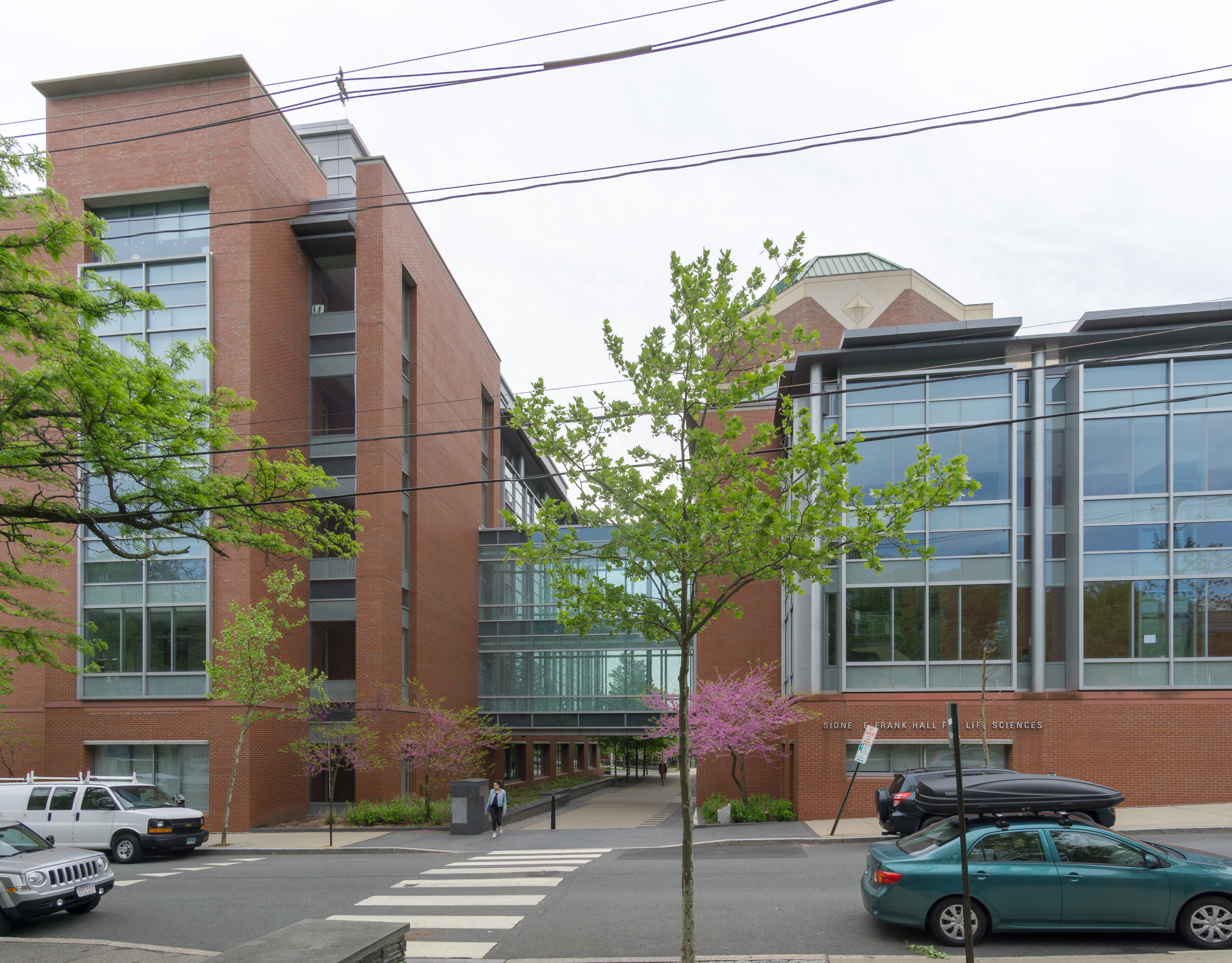 Sidney Frank Hall for Life Sciences, dedicated 2006. Brown University, Providence RI. Designed by Ballinger, the Philadelphia architectural and design firm, and built by Gilbane Building Company of Providence